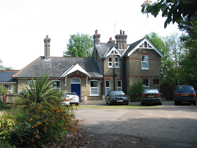 Coltishall railway station Original description: Coltishall Railway Station - now a B&B establishment